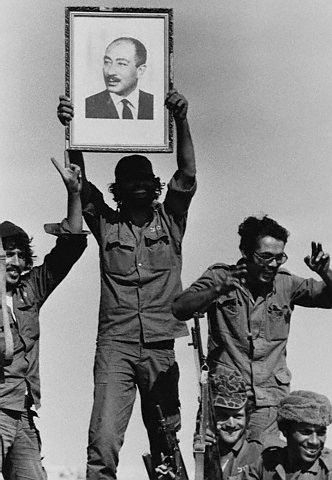 An Egyptian soldier holds a portrait of Egyptian President Anwar Sadat during the Arab-Israeli War - © Hulton-Deutsch Collection/CORBIS. From the booklet "President Nixon and the Role of Intelligence in the 1973 Arab-Israeli War." For more information, visit